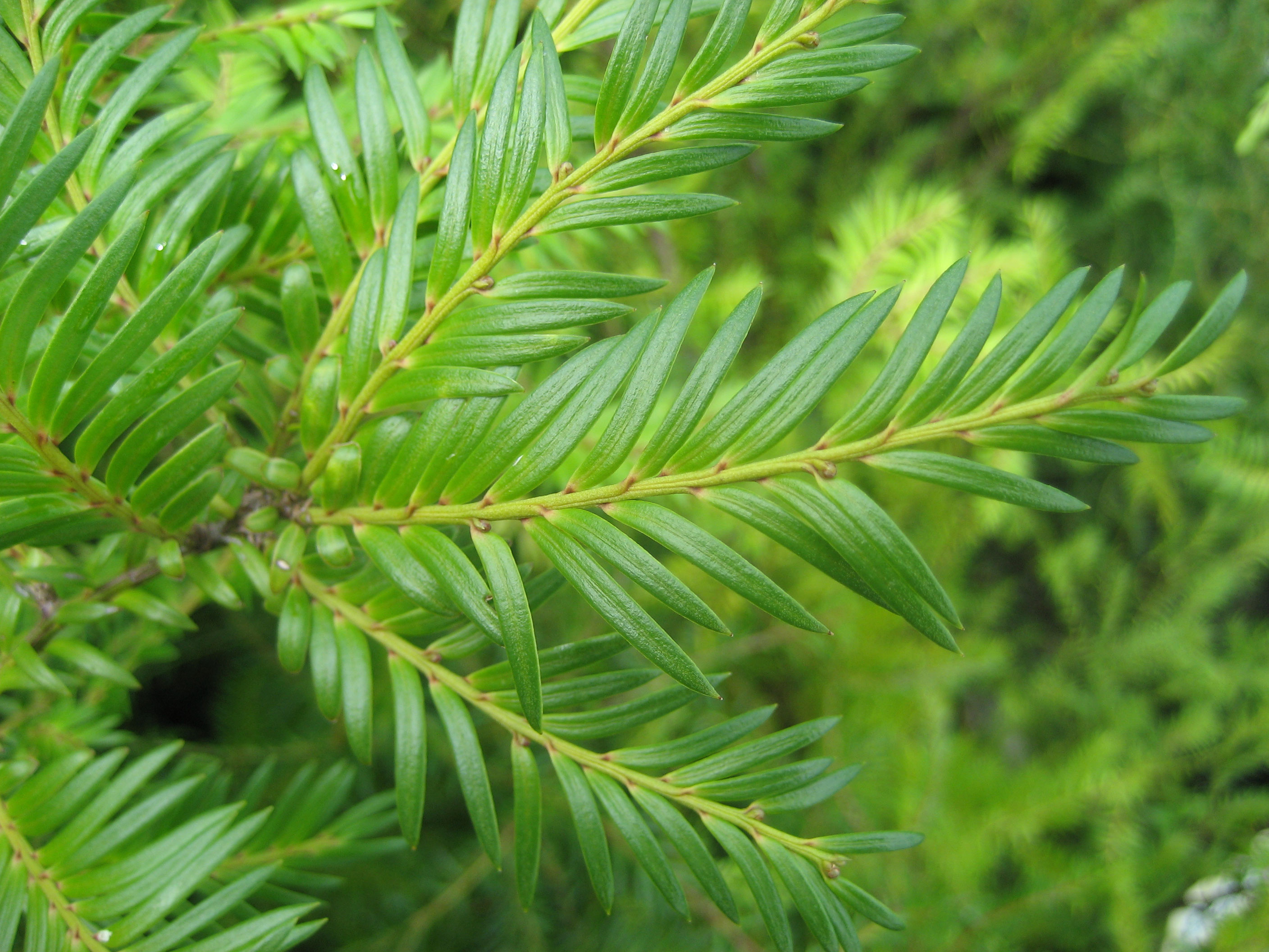 juvenile foliage of Miro, (Prumnopitys ferruginea), (Prumnopityaceae), a forest tree of New Zealand.